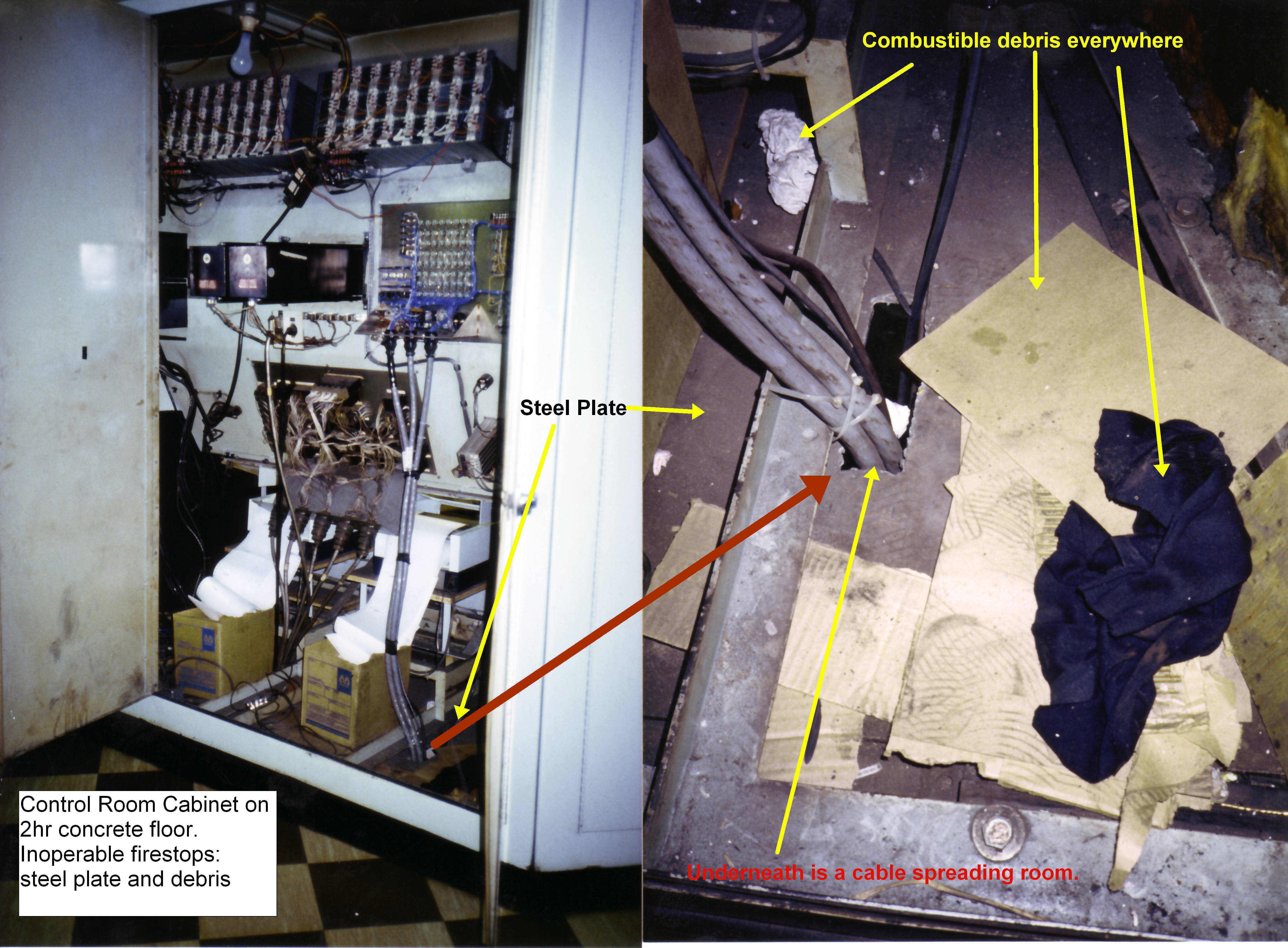 Control room cabinets at Point Tupper Generating Station, opened up, revealing lacking firestops directly above a cable spreading room. The cabinets sit on top of holes in a concrete slab, which is capped with a steel plate (great heatsink), ensuring immediate fire and smoke spread between rooms. The openings were subsequently firestopped.